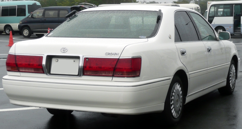 Toyota Crown unmarked car.